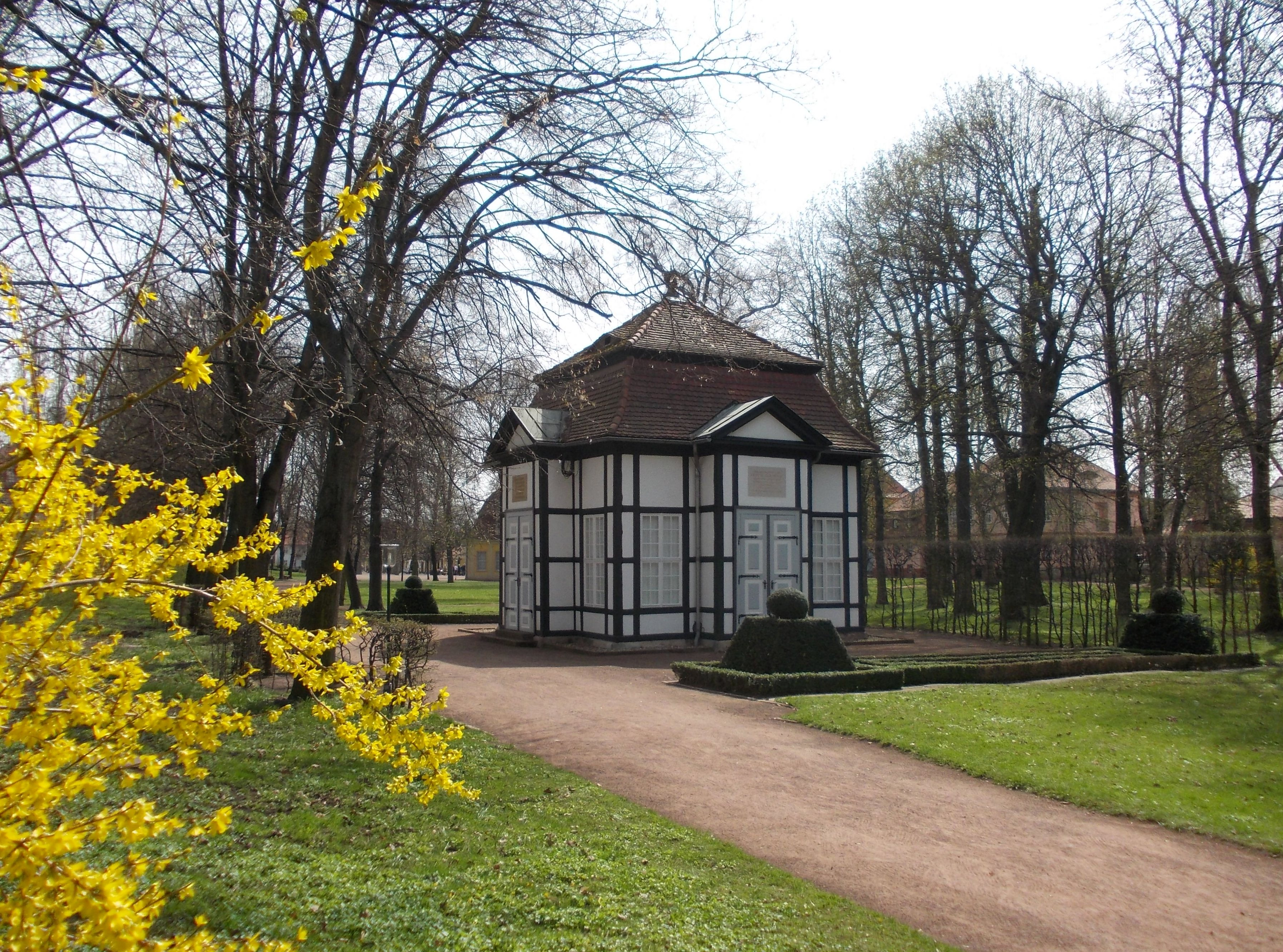 Duke Henry's Pavilion in the spa gardens of Bad Lauchstädt (disrict of Saalekreis, Saxony-Anhalt) in spring